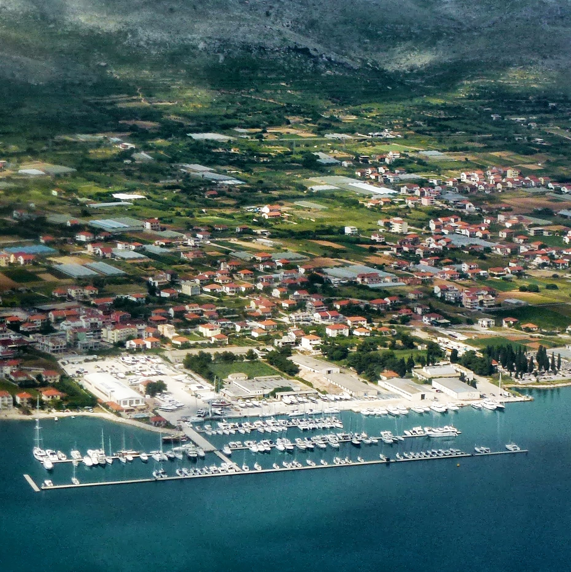 Yachtclub Seget, Croatia